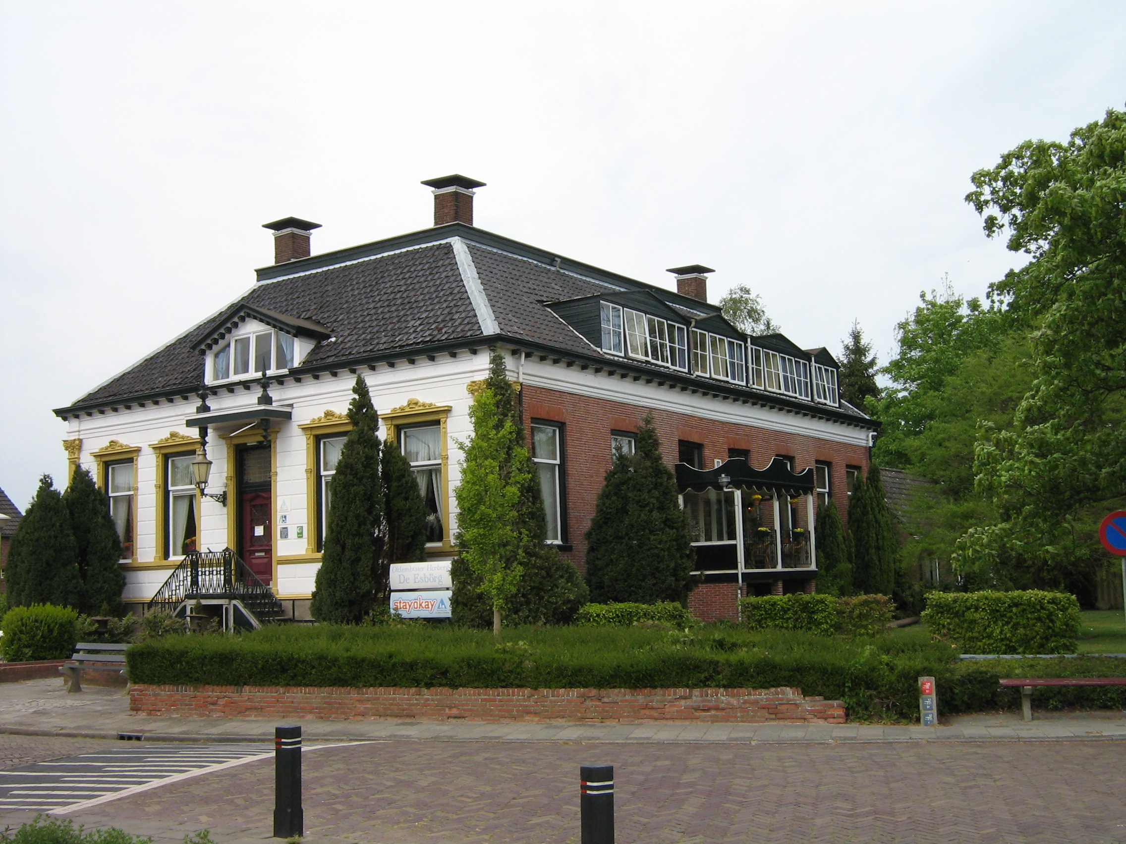 Youth hostel "Esbörg" in Scheemda, the Netherlands